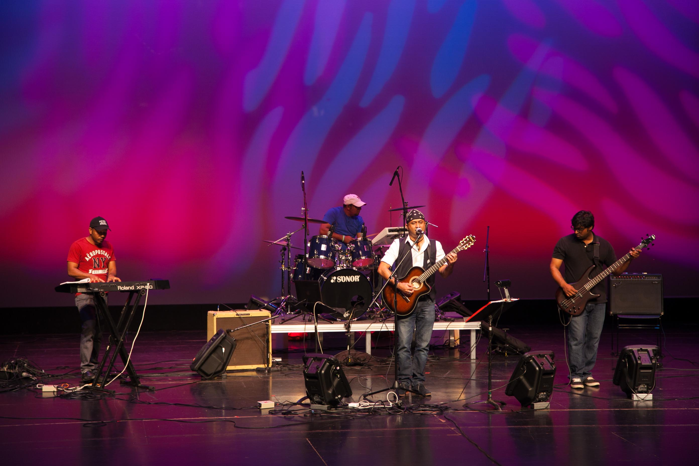 S I Tutul performing in BABA event at De Anza College in Cupertino, CA